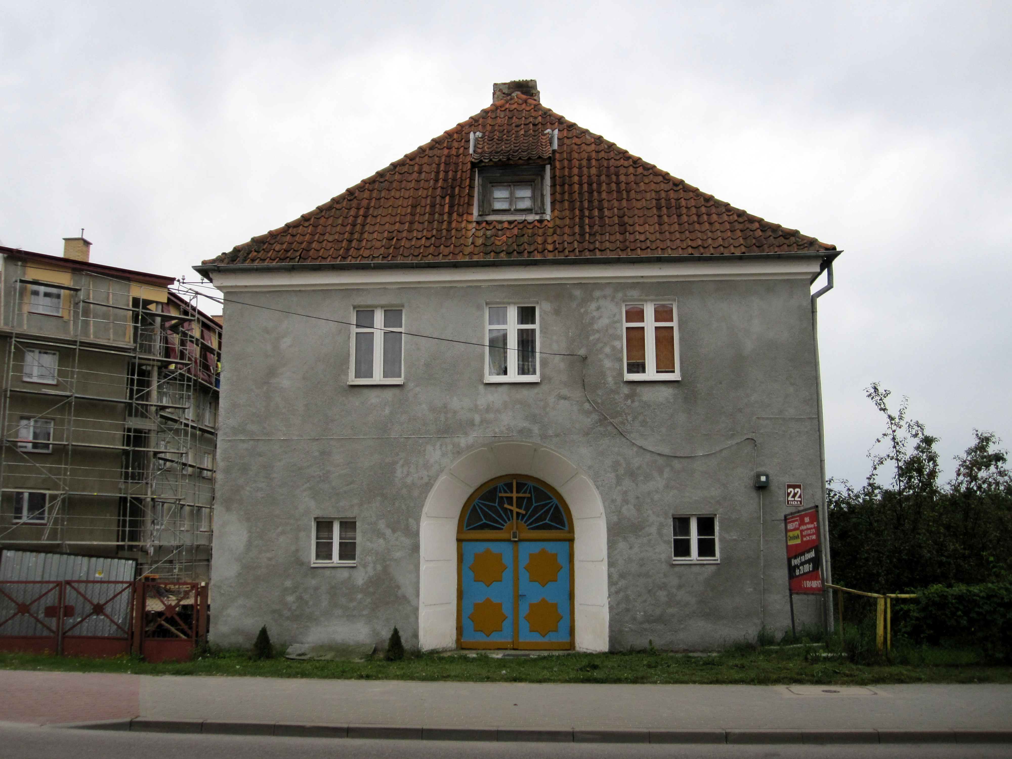 Building on 22 Ełcka street in Orzysz - Saint George Orthodox church